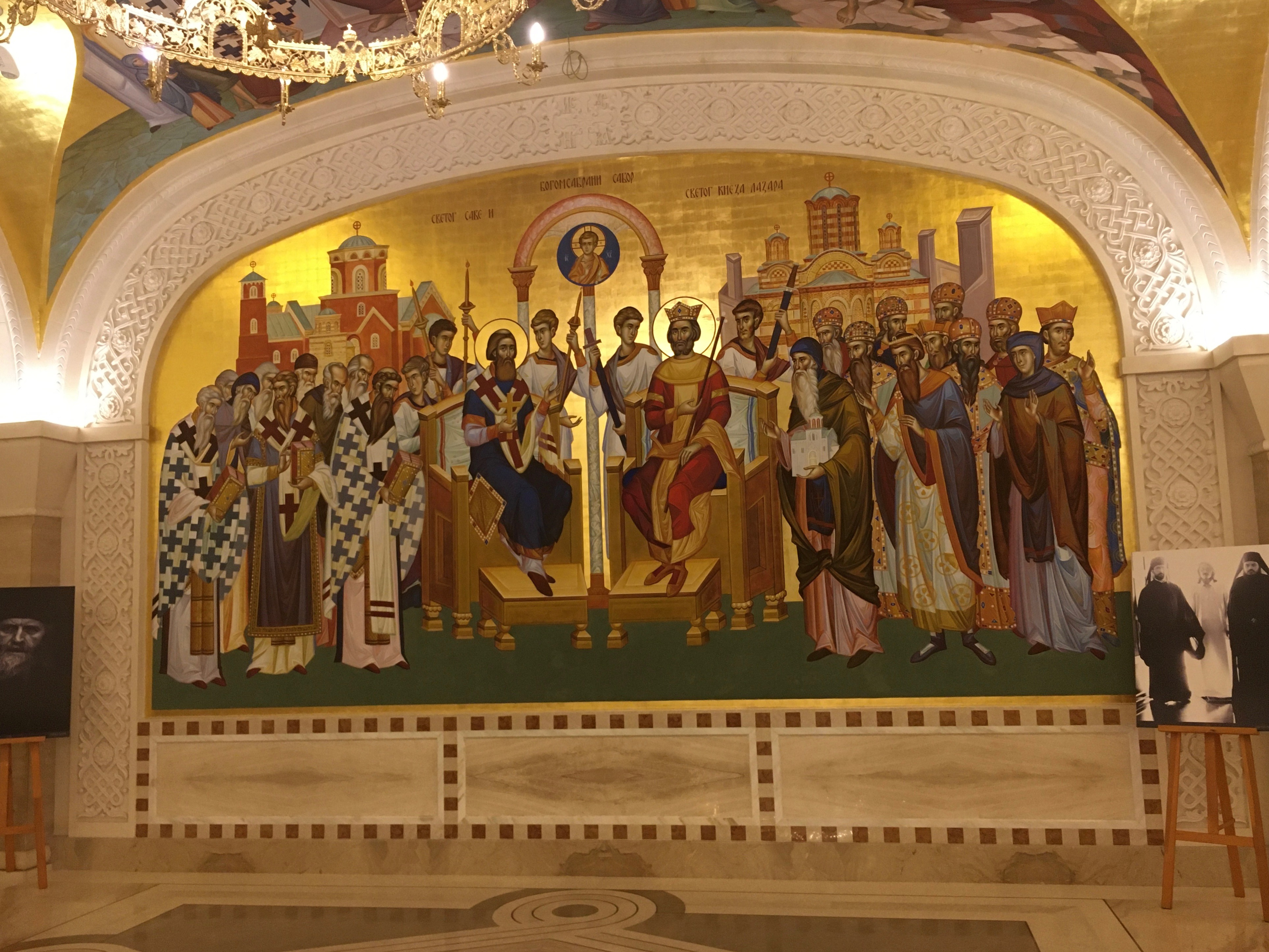 Fresque in St. Sava Church cript depicting St. Sava and St. prince Lazar. Belgrade, Serbia.